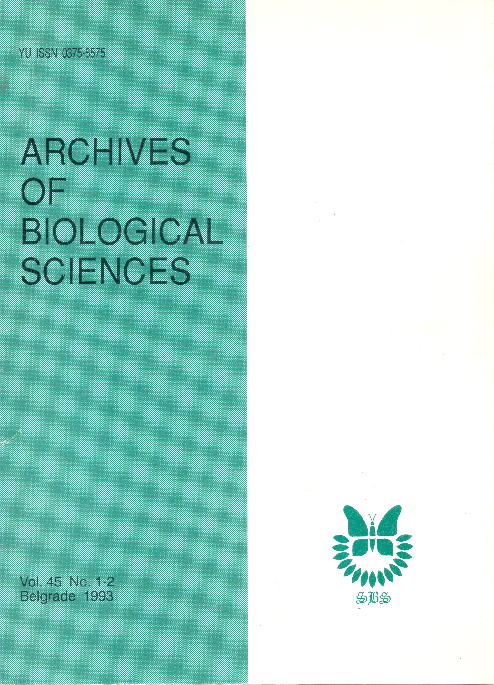 Archives of Biological Sciences - cover page of the first number